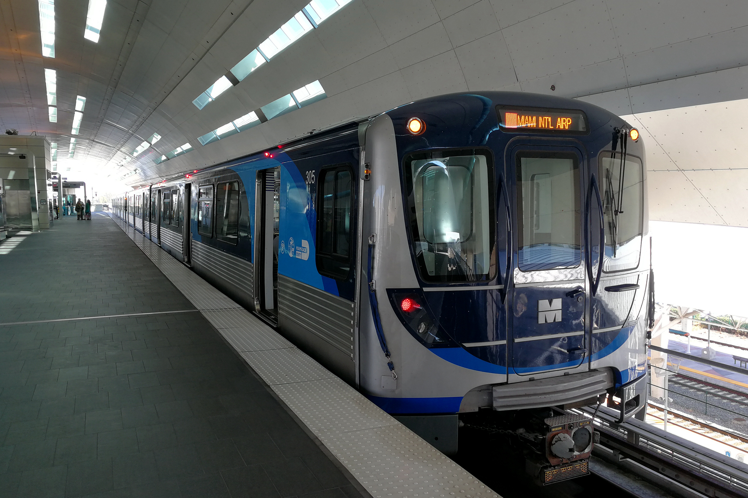 A second generation train of Miami Metrorail produced by Hitachi Rail.